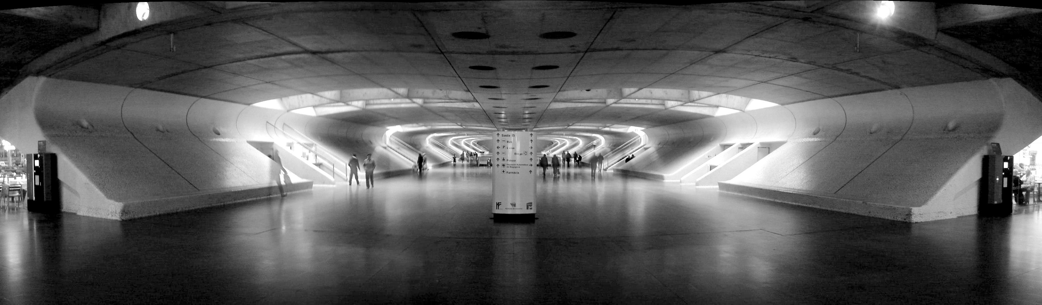 Orient Station inferior gallery